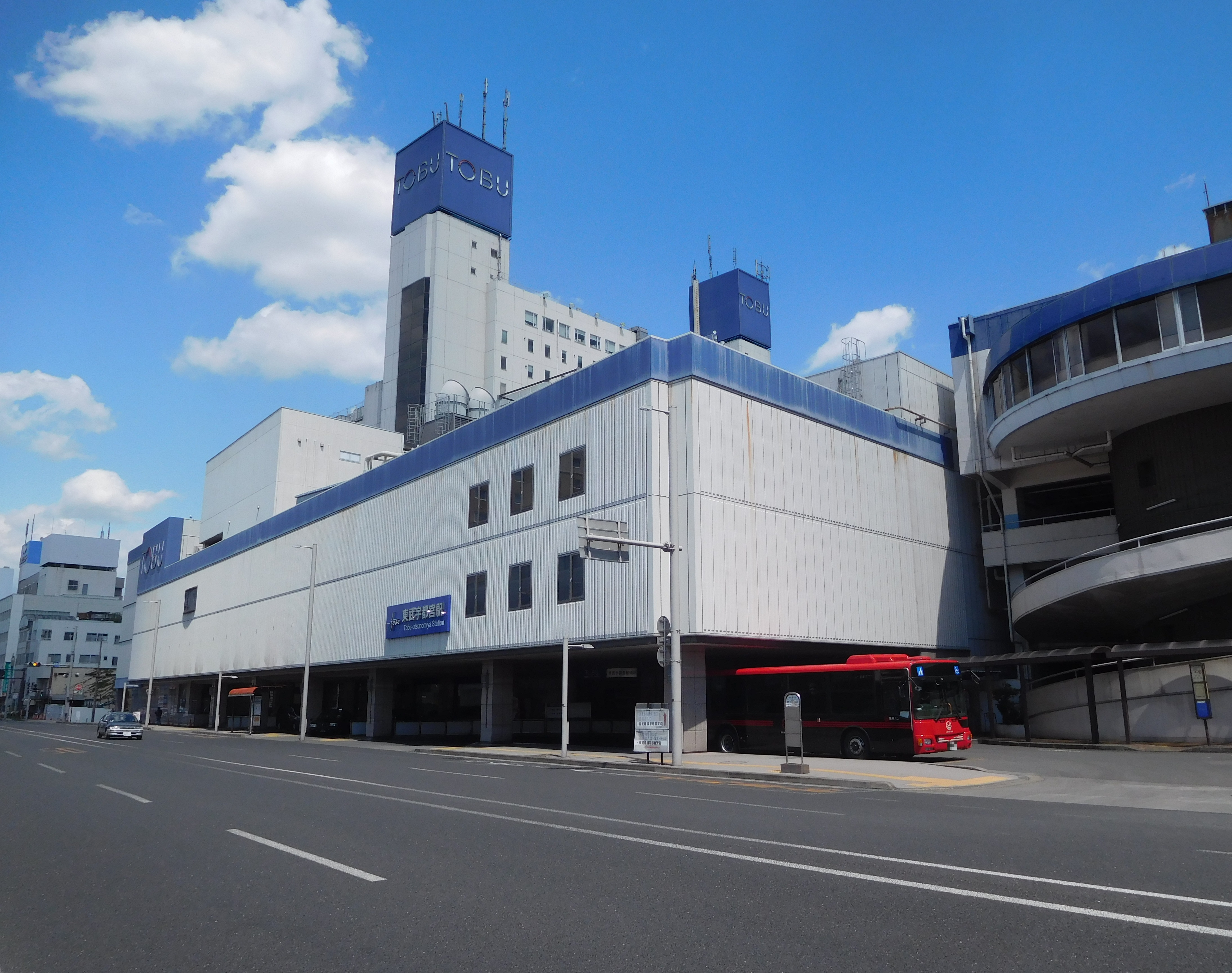 This is Tobu Utsunomiya station and Tobu Utsunomiya department store in Utsunomiya, Tochigi, Japan.